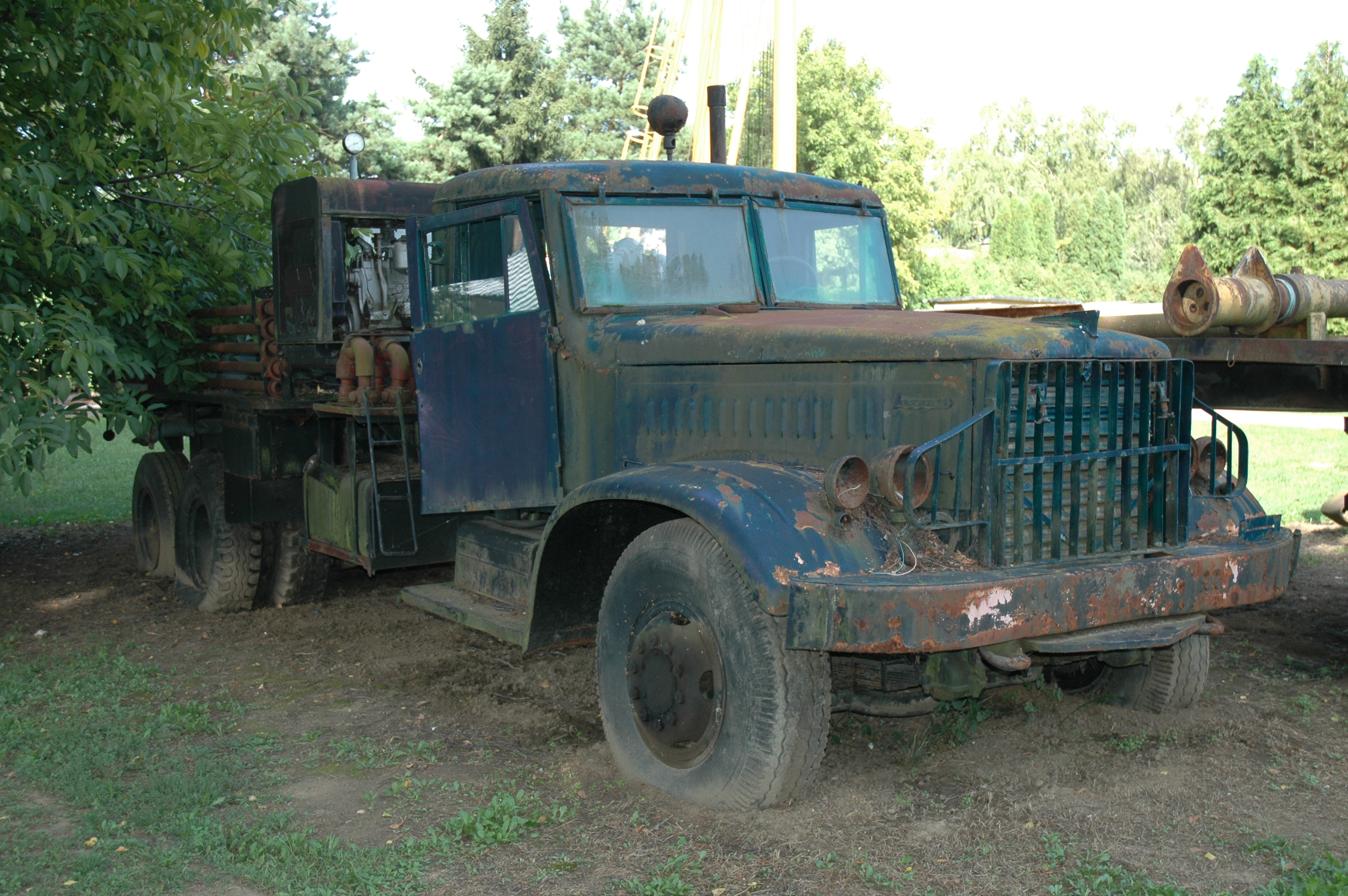 KrAZ-219 Soviet heavy truck with oil exploration equipment, displayed at the Museum of Hungarian Petroleum and Gas Industry in Zalaegerszeg